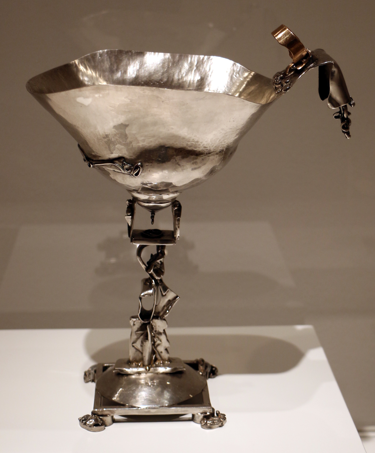 Metalware in the Indianapolis Museum of Art